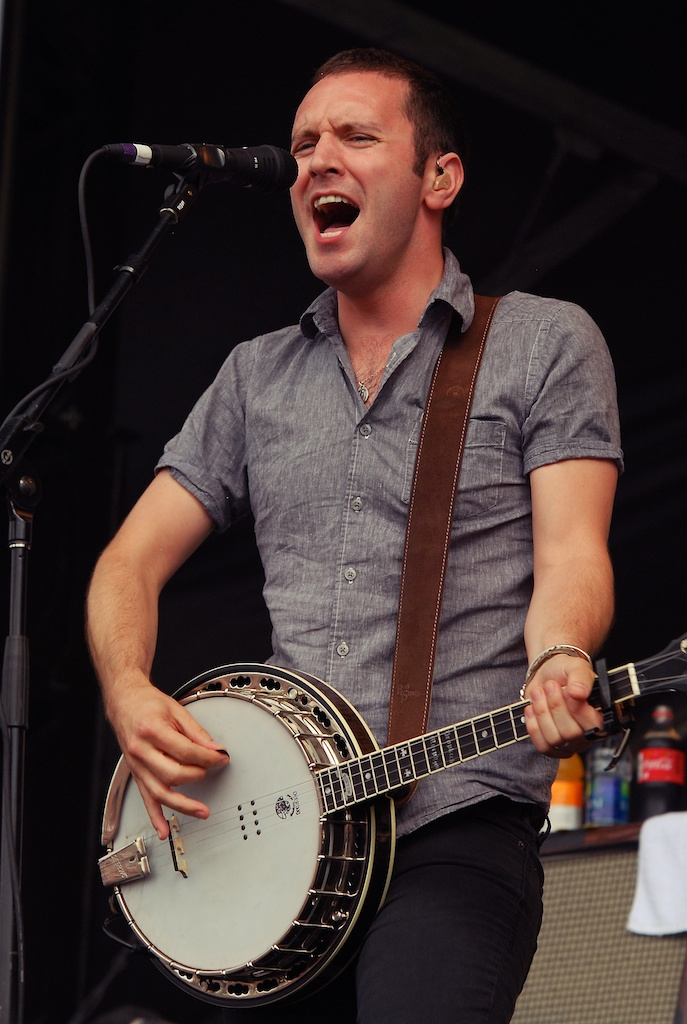 Dropkick Murphys at the 2011 Cisco Ottawa Bluesfest. By: Brennan Schnell